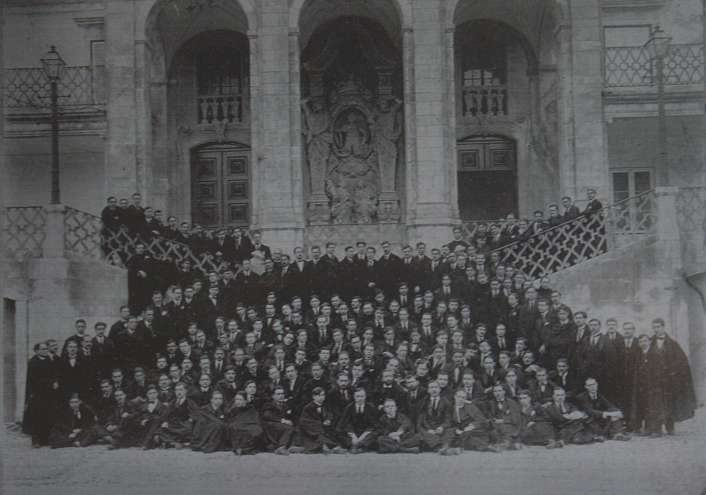 Orfeon de Rapouso Marques